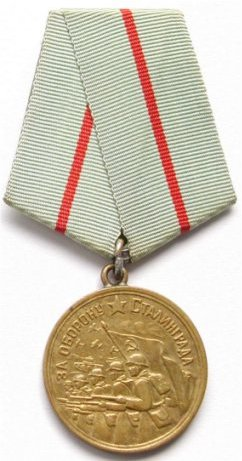 USSR Medal defense of Stalingrad Crop of Wikimedia Commons picture: Image:Medal stalingrad USSR.jpg